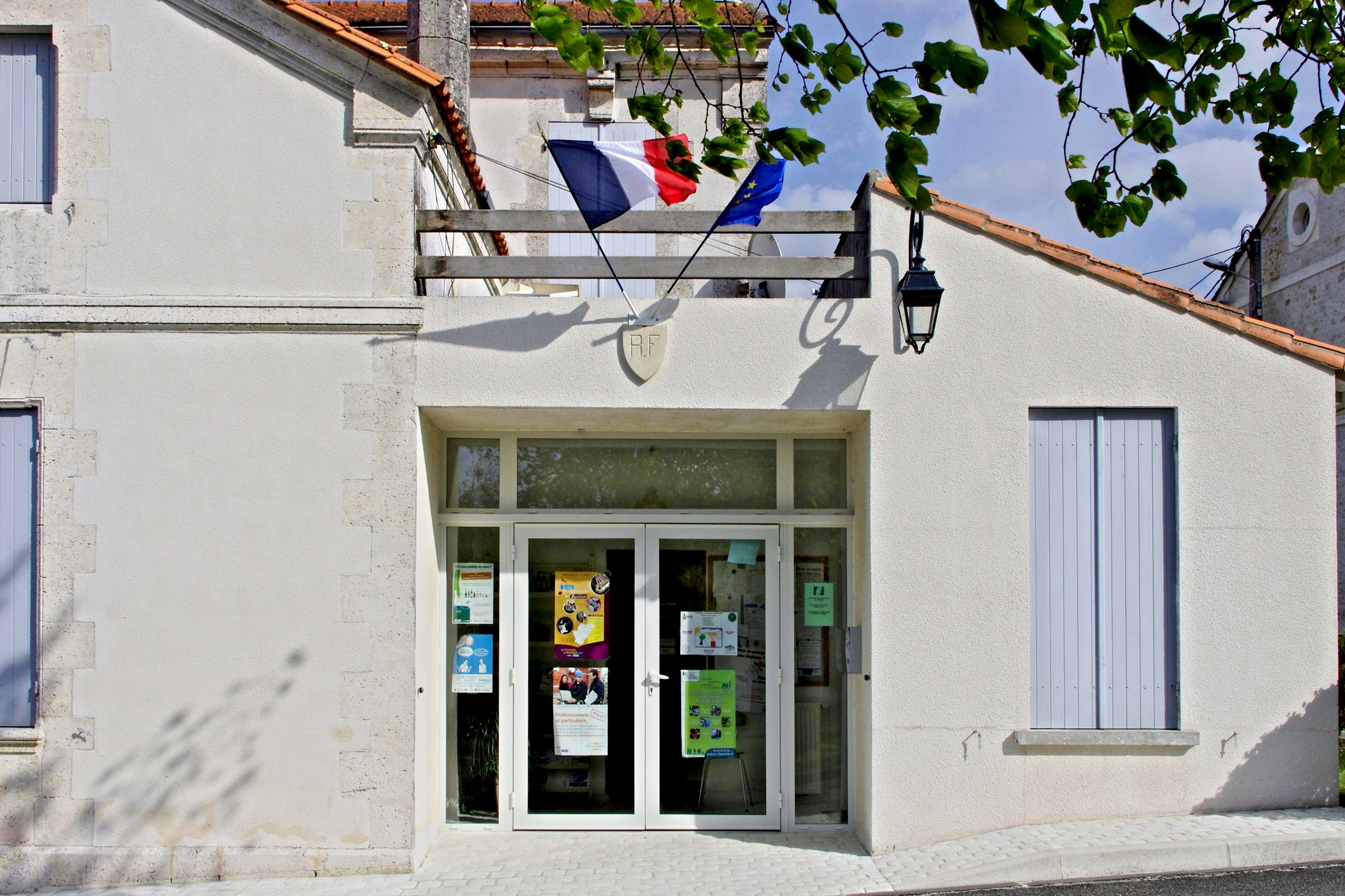 Town hall of Bardenac, Charente, France.